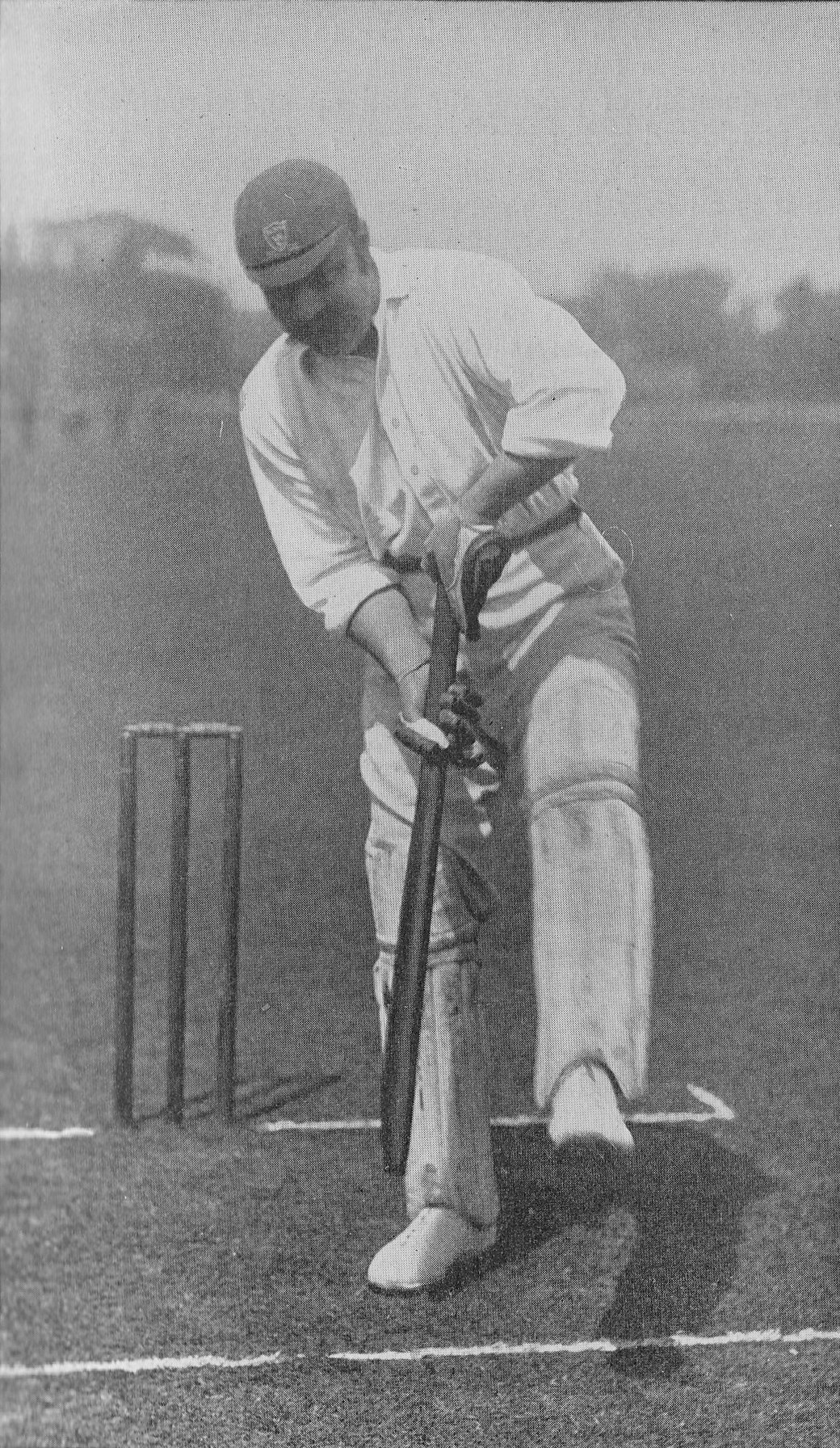 "W. L. Murdoch's under-leg stroke